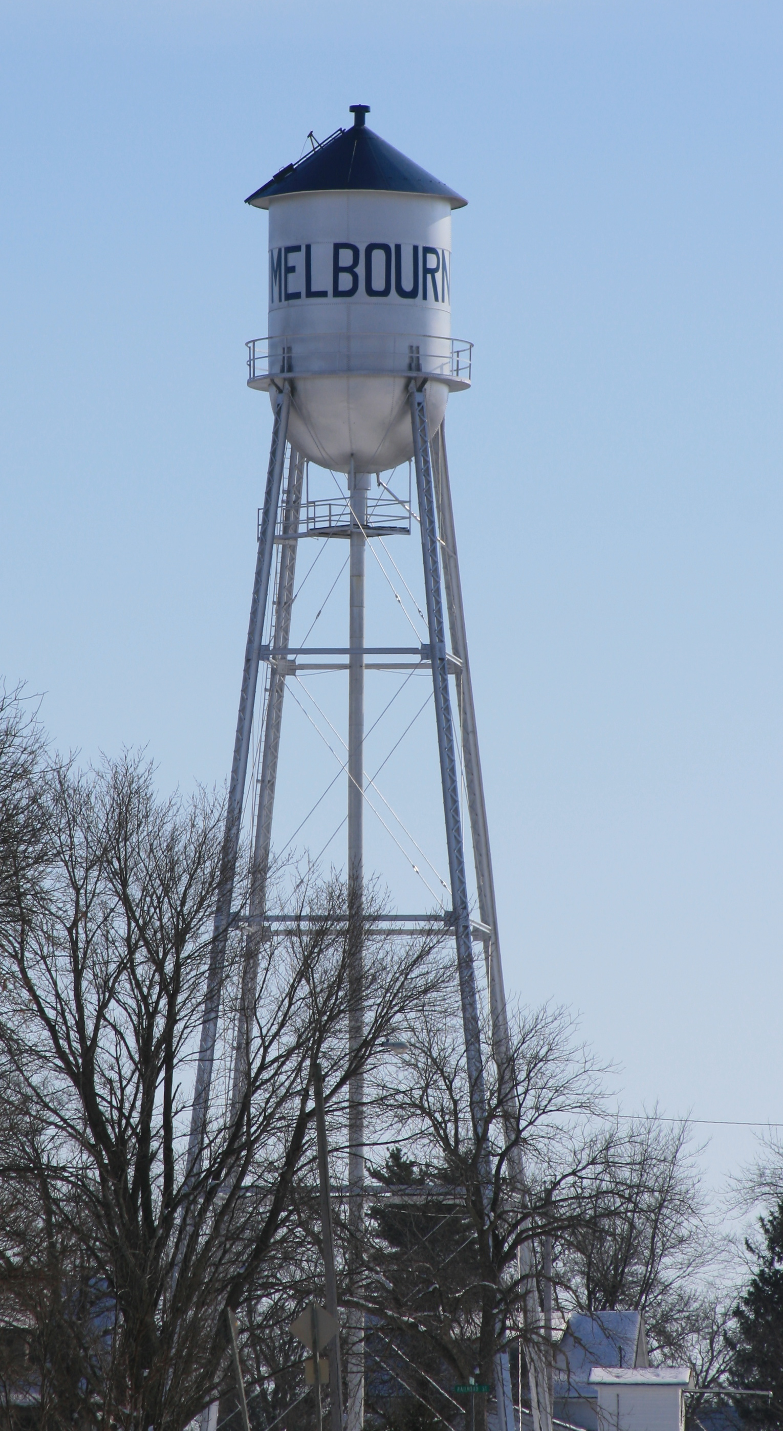 Water tower located in Melbourne, Iowa